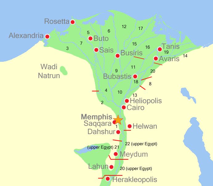 Map of Lower Egypt with historical nomes numbered.